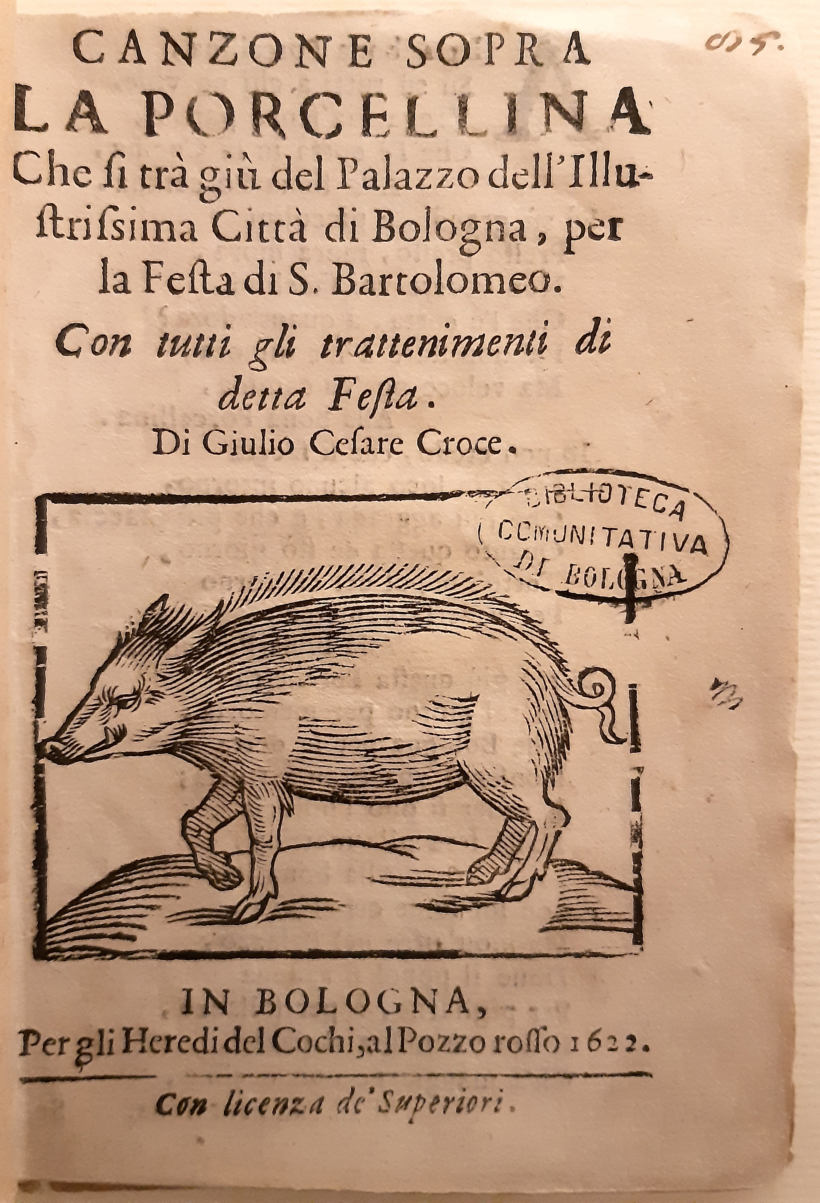 Title page of Canzone Sopra La Porcellina che si tra giu del Palazzo del'illustrissima citta di Bologna, per la festa di S. Bartolomeo. Con tutti gli trattenimenti di detta festa, Bologna, Eredi did Bartolomeo Cochi, 1622